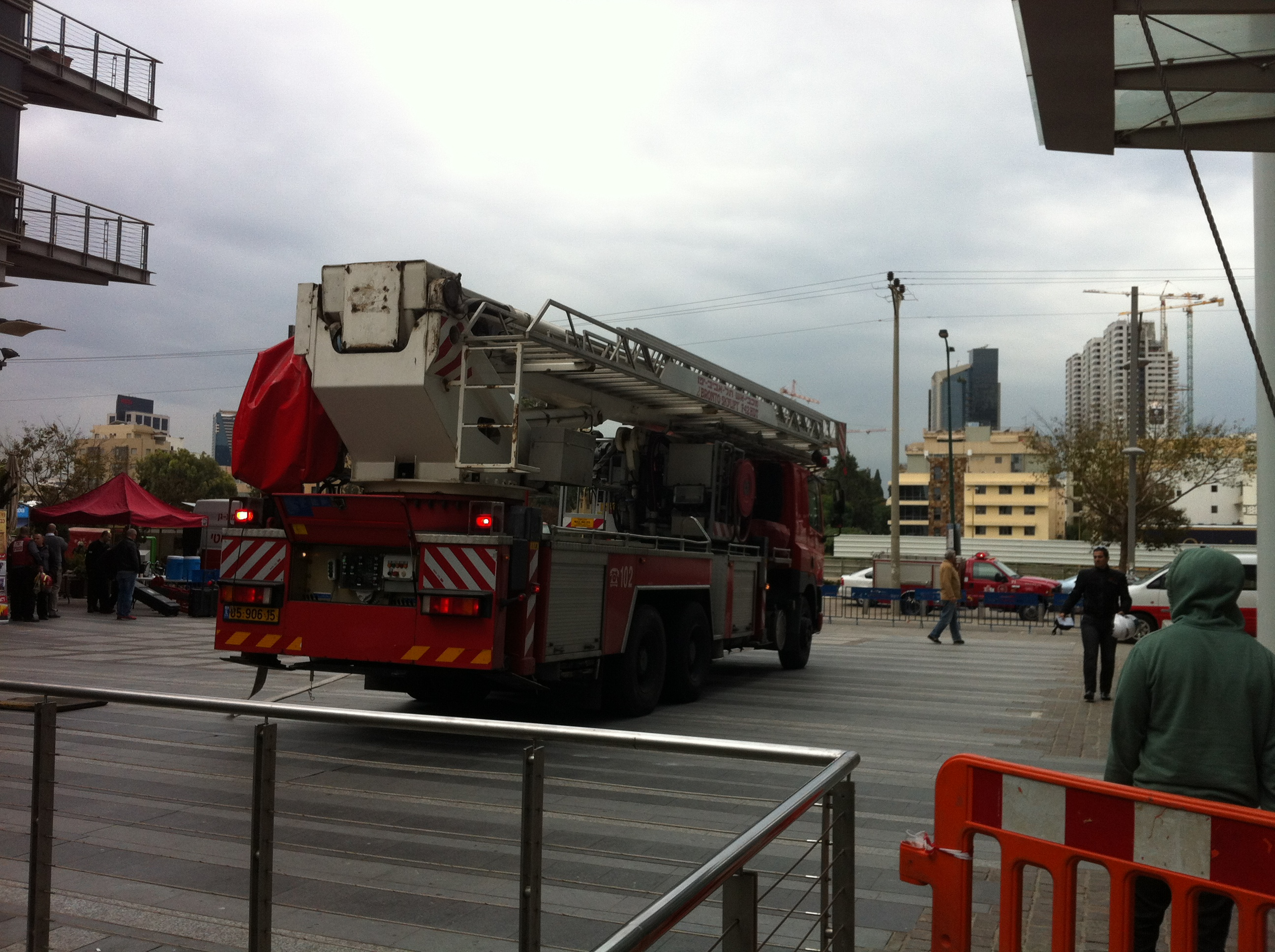 Transport in Israel